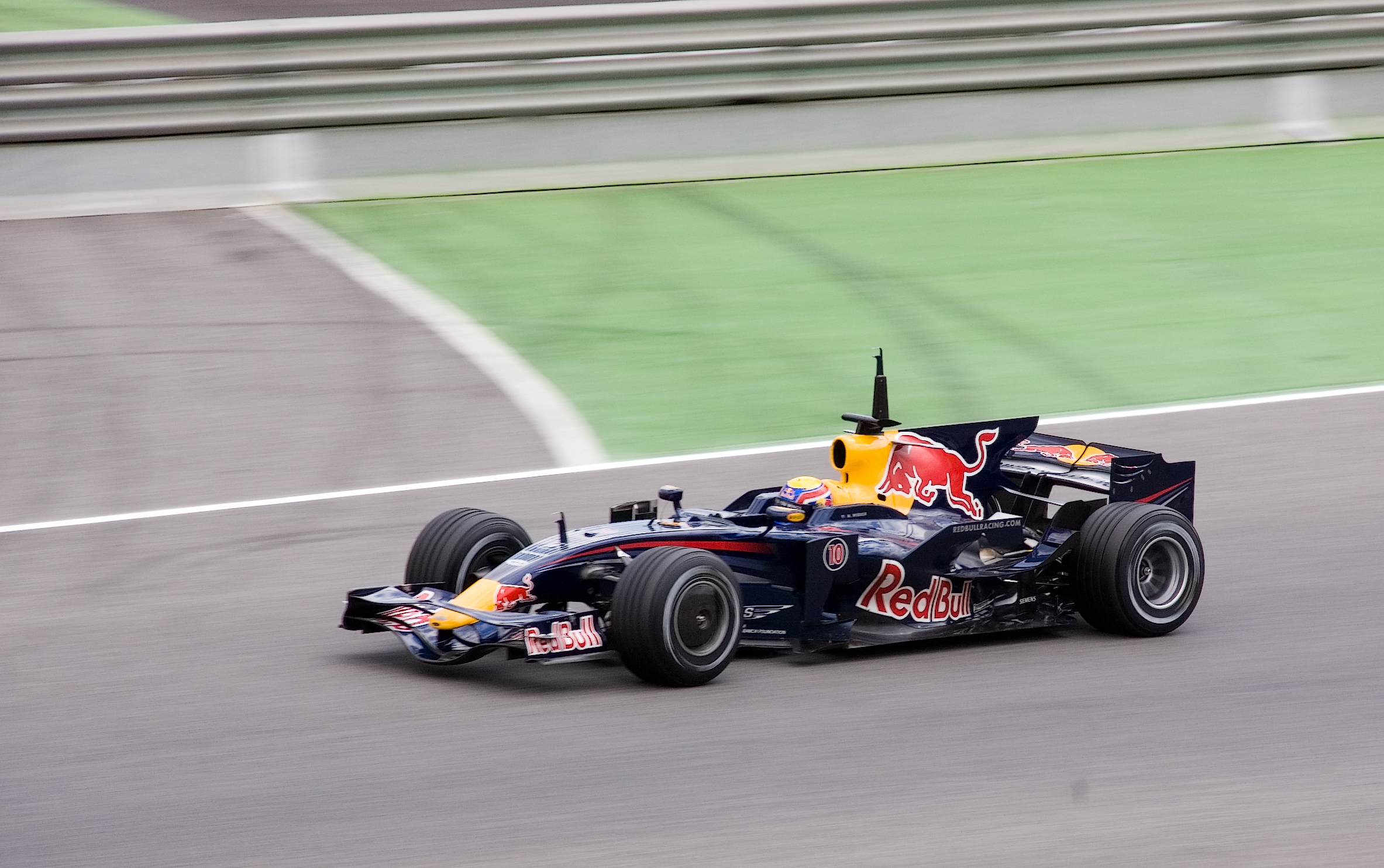 Mark Webber testing for Red Bull Racing at the Circuit de Catalunya in June 2008.